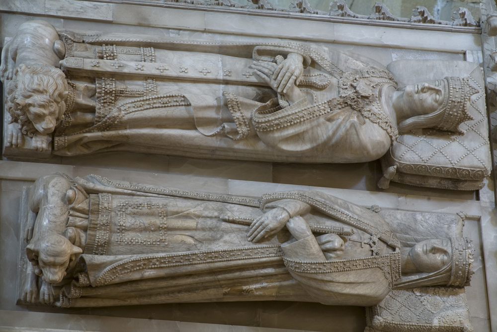 John II of Aragon and Juana Enríquez